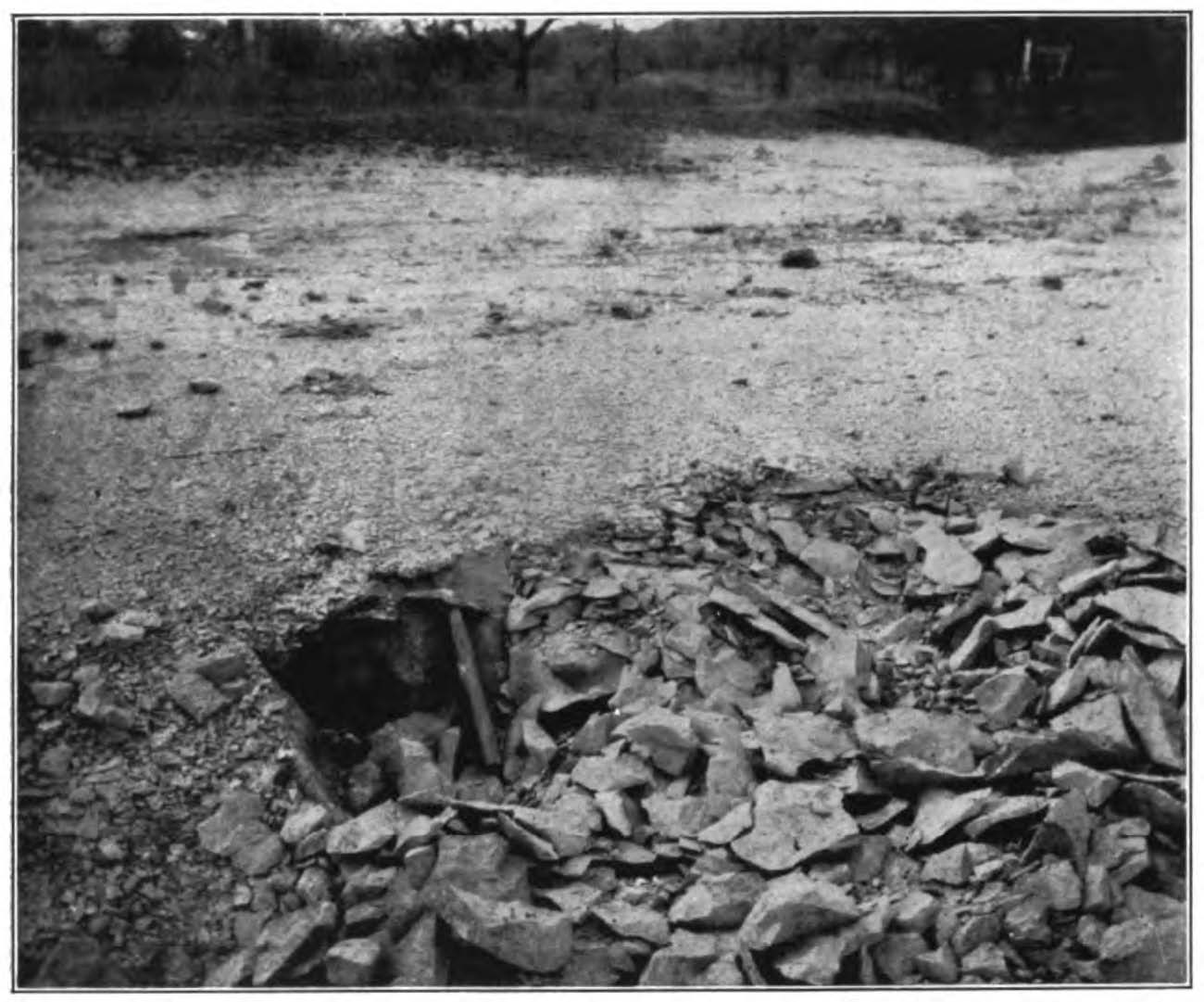 Bulletin 429 Plate XVI A original caption: Annona Chalk outcrop 1 1/2 miles east of Clarksville, Tex. Showing conchoidal fracture.